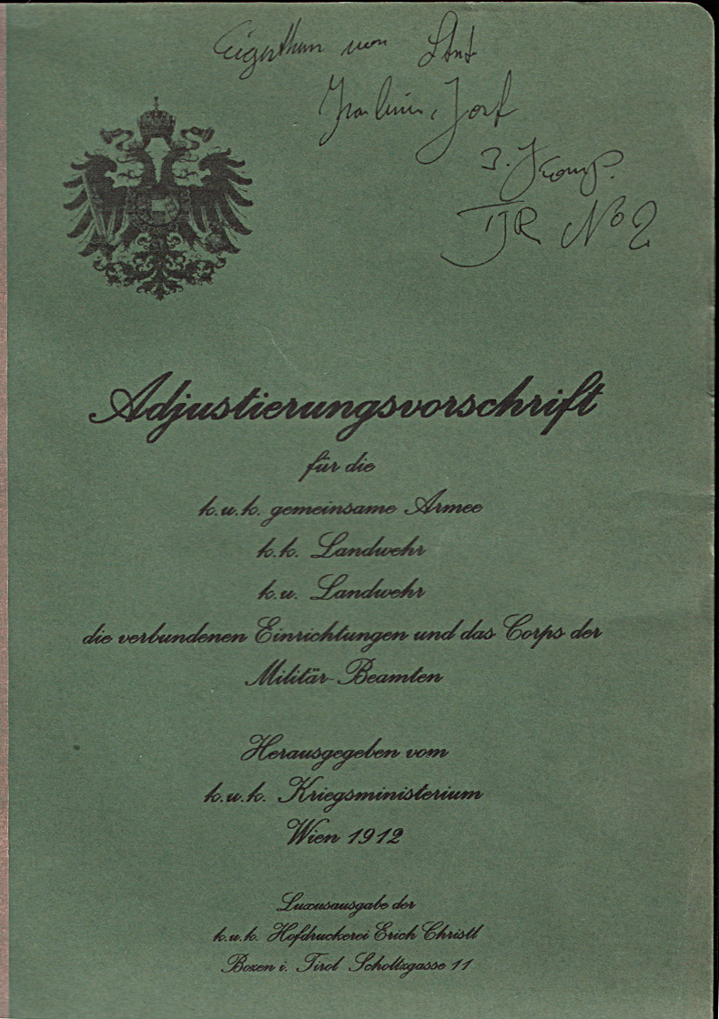 Adjustierungsvorschrift (en: 'Uniform regulations) of the Austro-Hungarian armed forces (k.u.k.) 1868 to 1918, Issue of 1912.